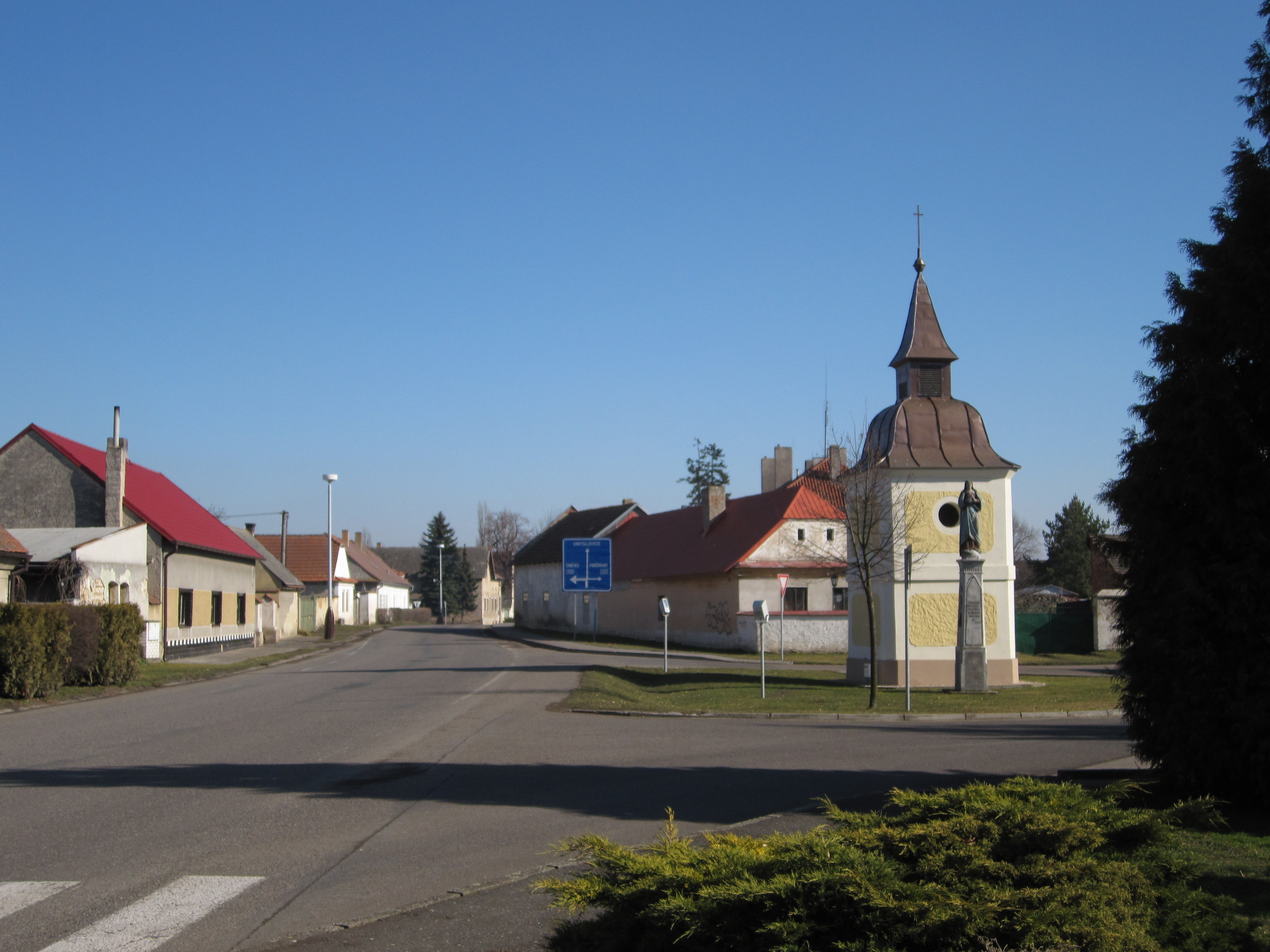 Mainstreet of Netřebice near Nymburk